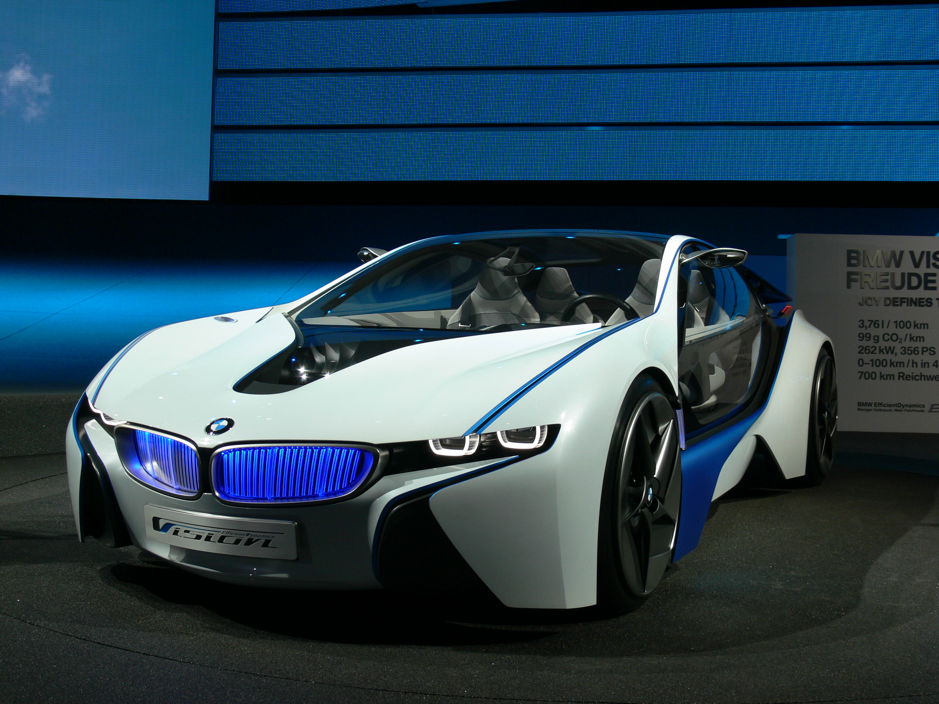 BMW Concept Vision Efficient Dynamics, IAA 2009